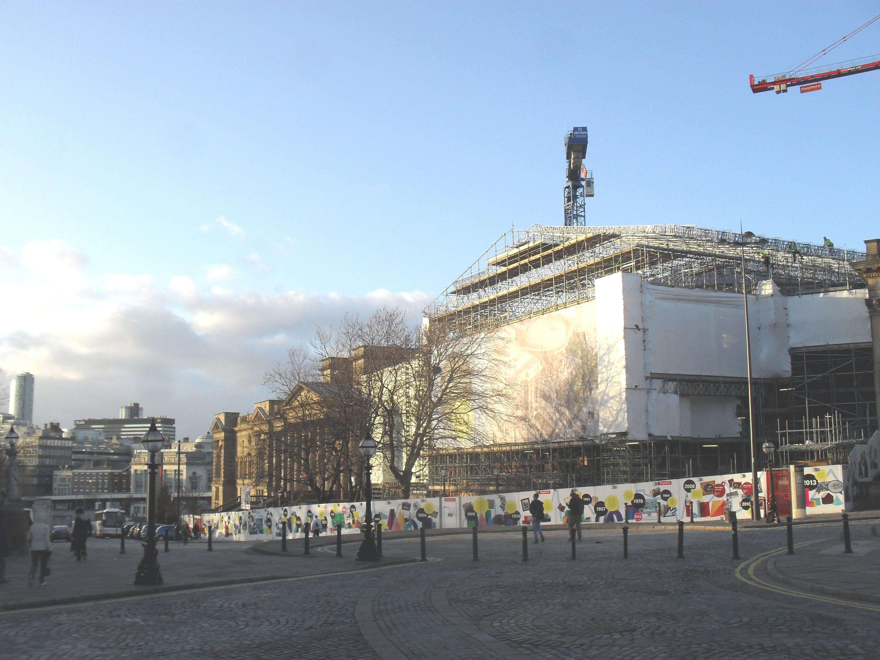 Liverpool Central Library rebuild December 13 2011